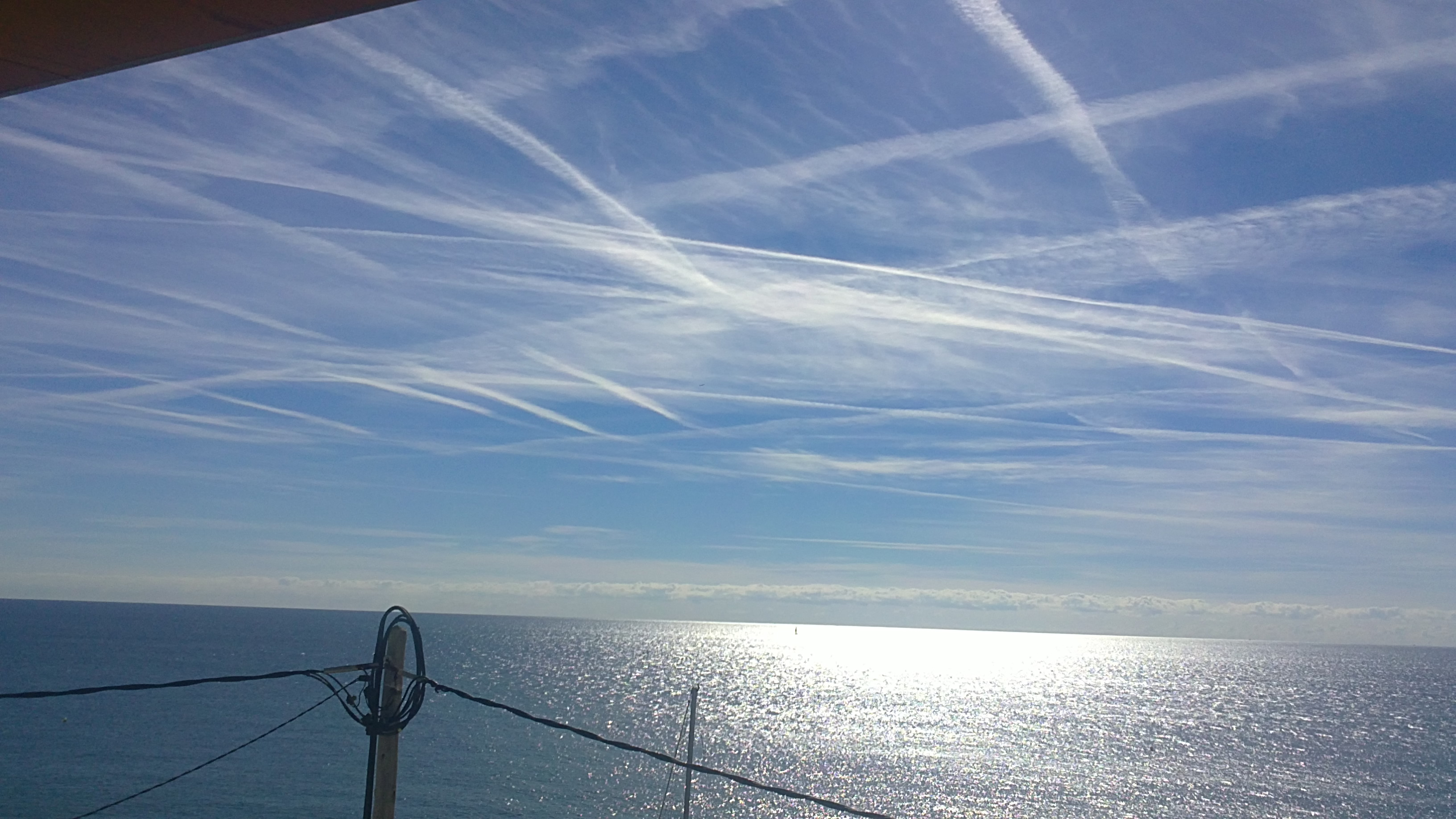 Persistent contrails in Sitges